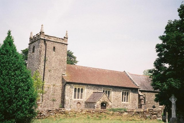 Lytchett Matravers: parish church of St. Mary This parish church is quite detached from what is today recognised as the village of Lytchett Matravers – thanks to the black death the village near the church was deserted and re-established where it is today. The vast majority of the church is medieval, including the tower which was built in around 1200.